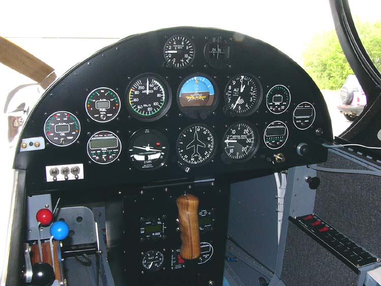 I took this photo at Carp Airport on 11 June 2006